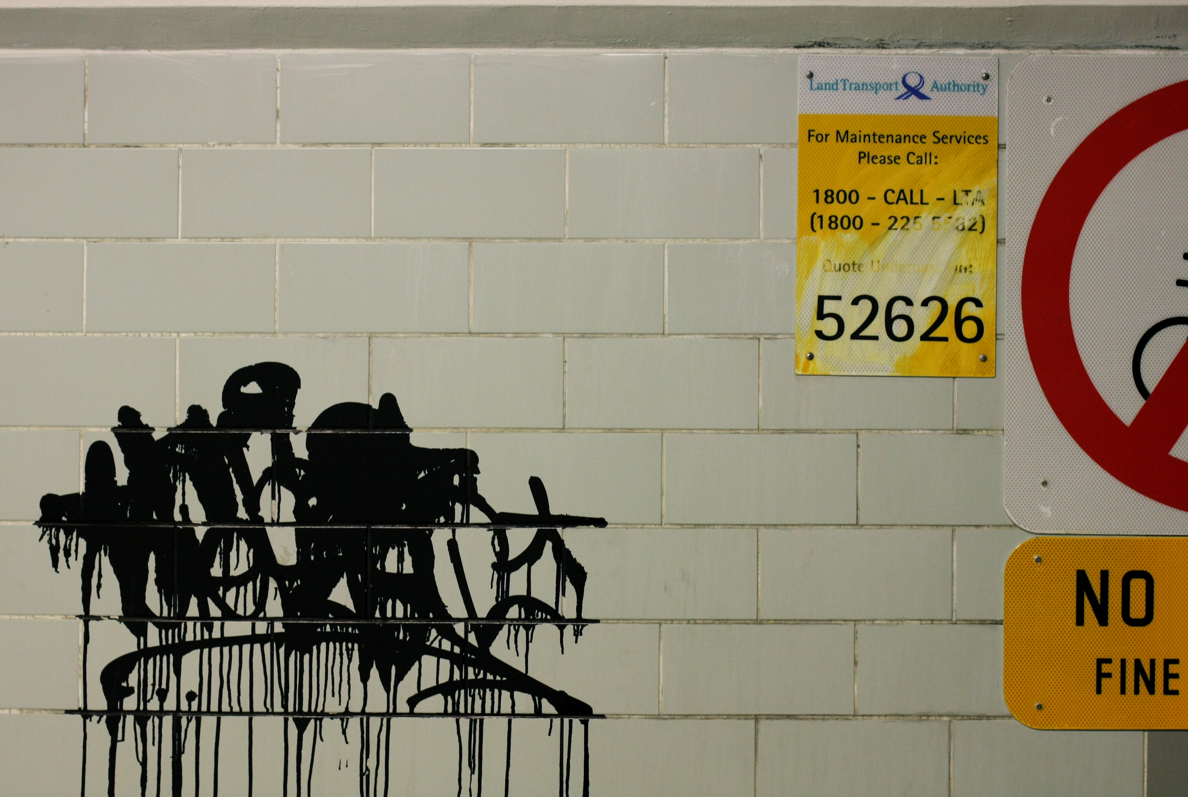 Graffiti in a pedestrian underpass in the Central Business District, Singapore.